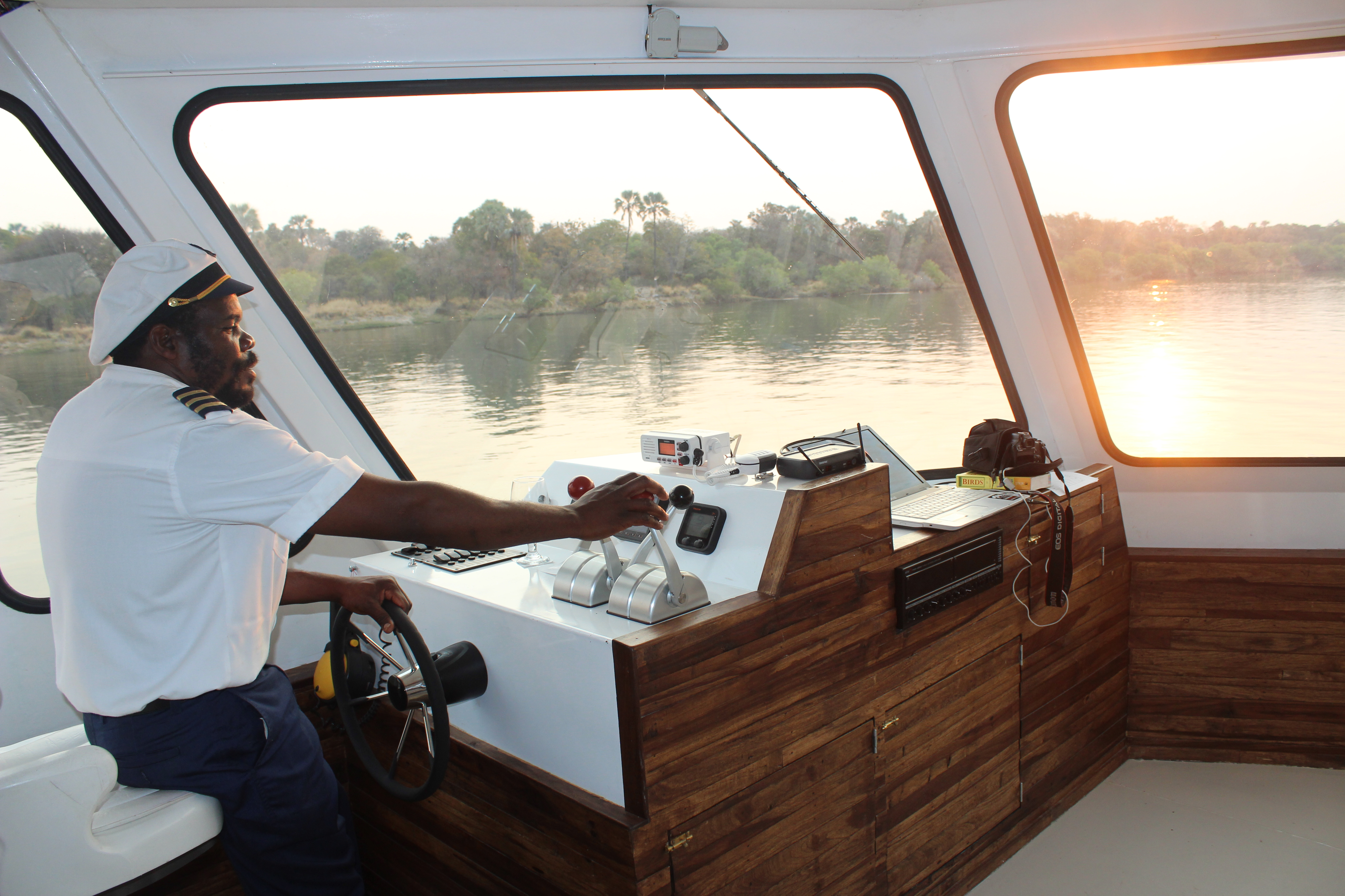 Qafár af: mutyairi reboot This is an image with the theme "Africa on the Move or Transport" from: Zimbabwe